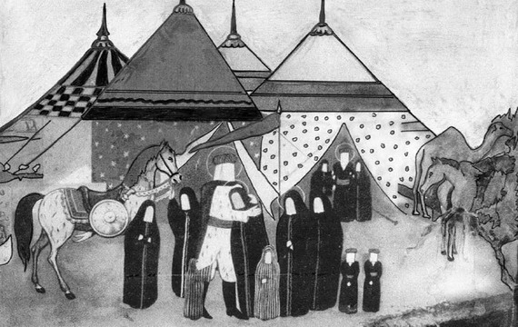 Imam Husayn ibn ‘Alī ibn Abī Tālib bedding fer well to his family before marching to Karbalā’